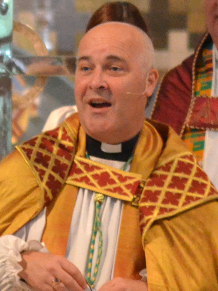 Installation of the Bishops of Barking and Colchester